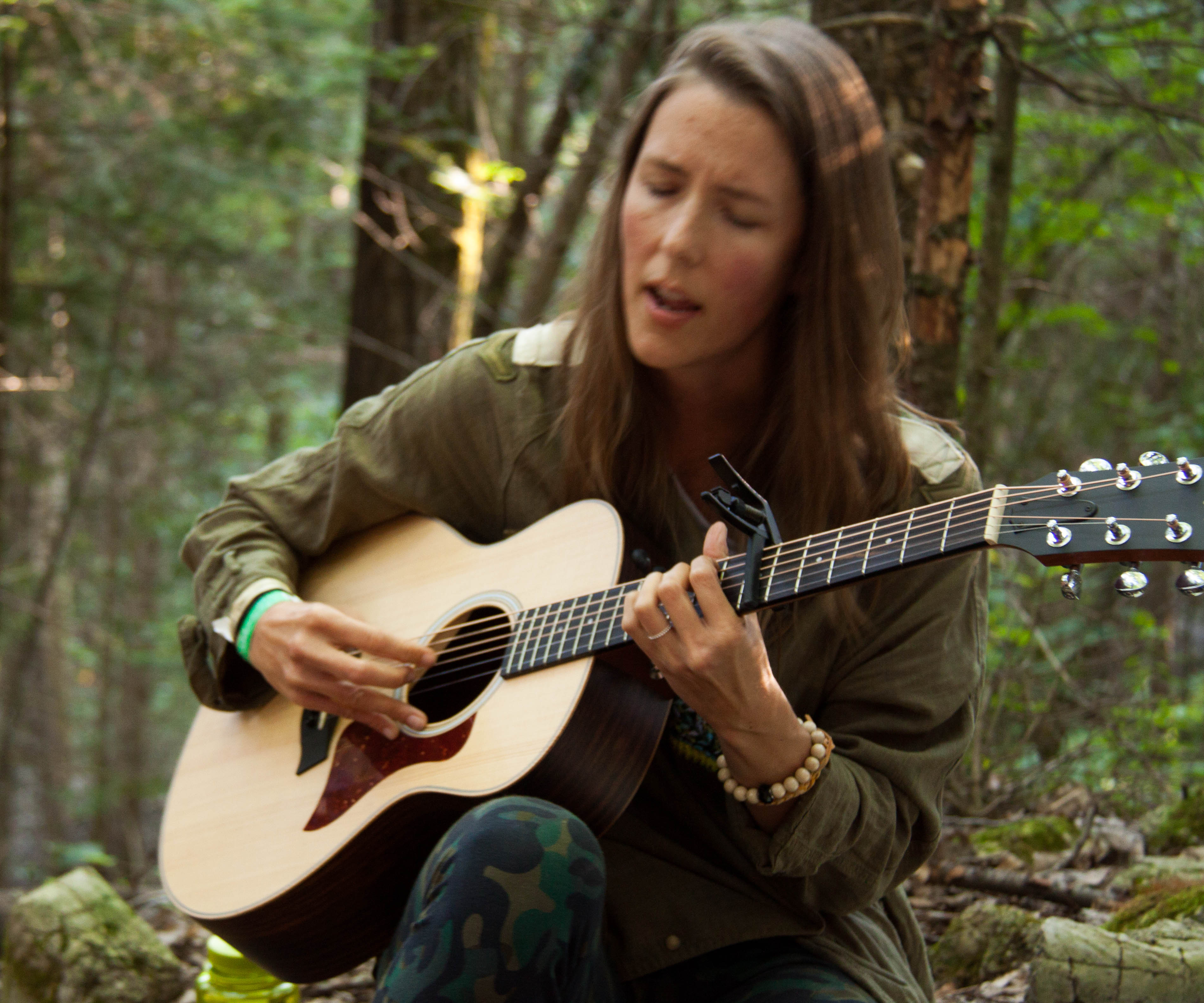 Beyries intimate concert in the Forest